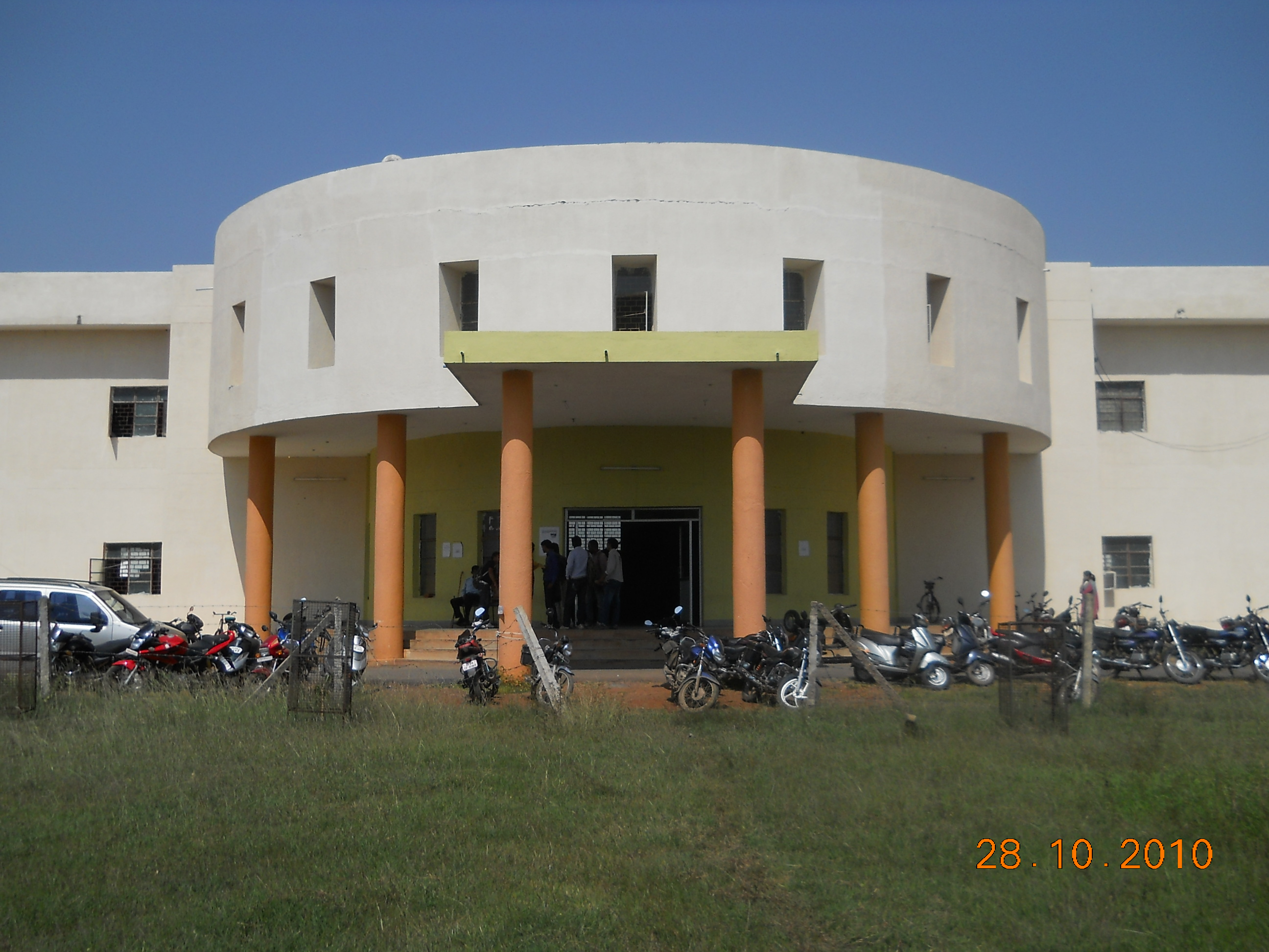 The new building of Institute of Technology